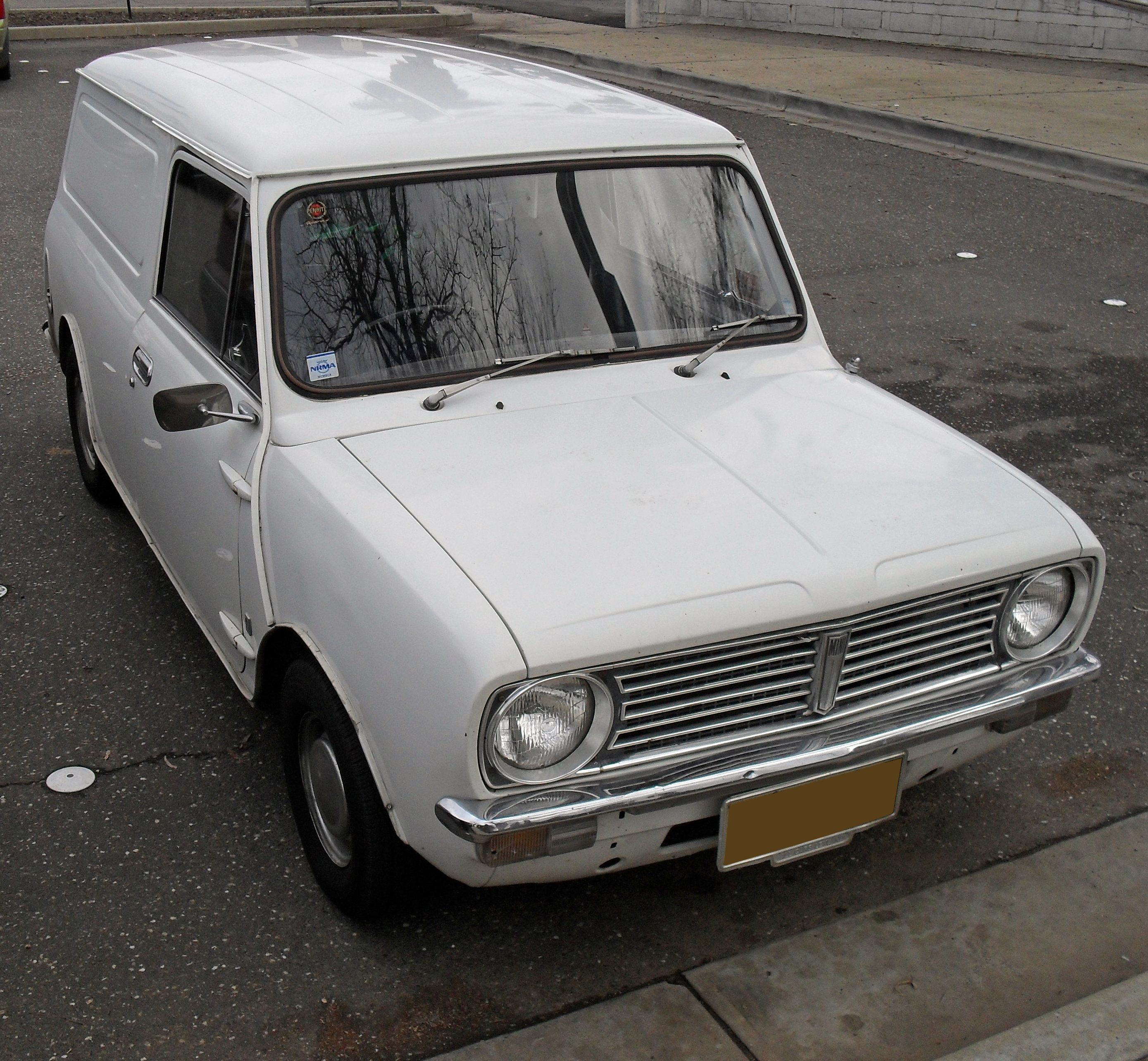 1973-1978 Leyland Mini van photographed in New South Wales, Australia.